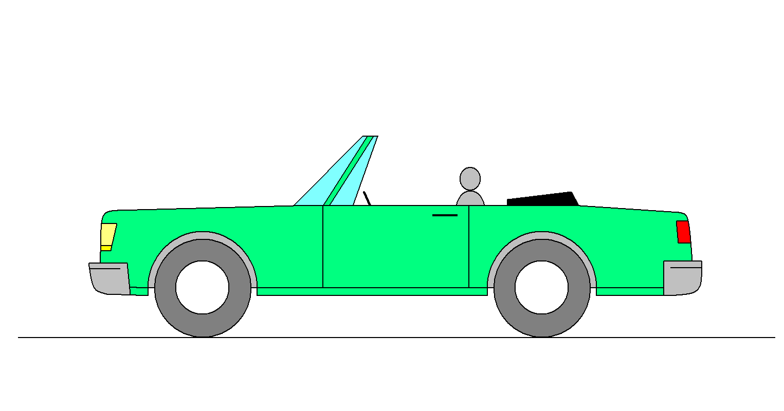 Cartype Cabrio (sometimes Roadster)